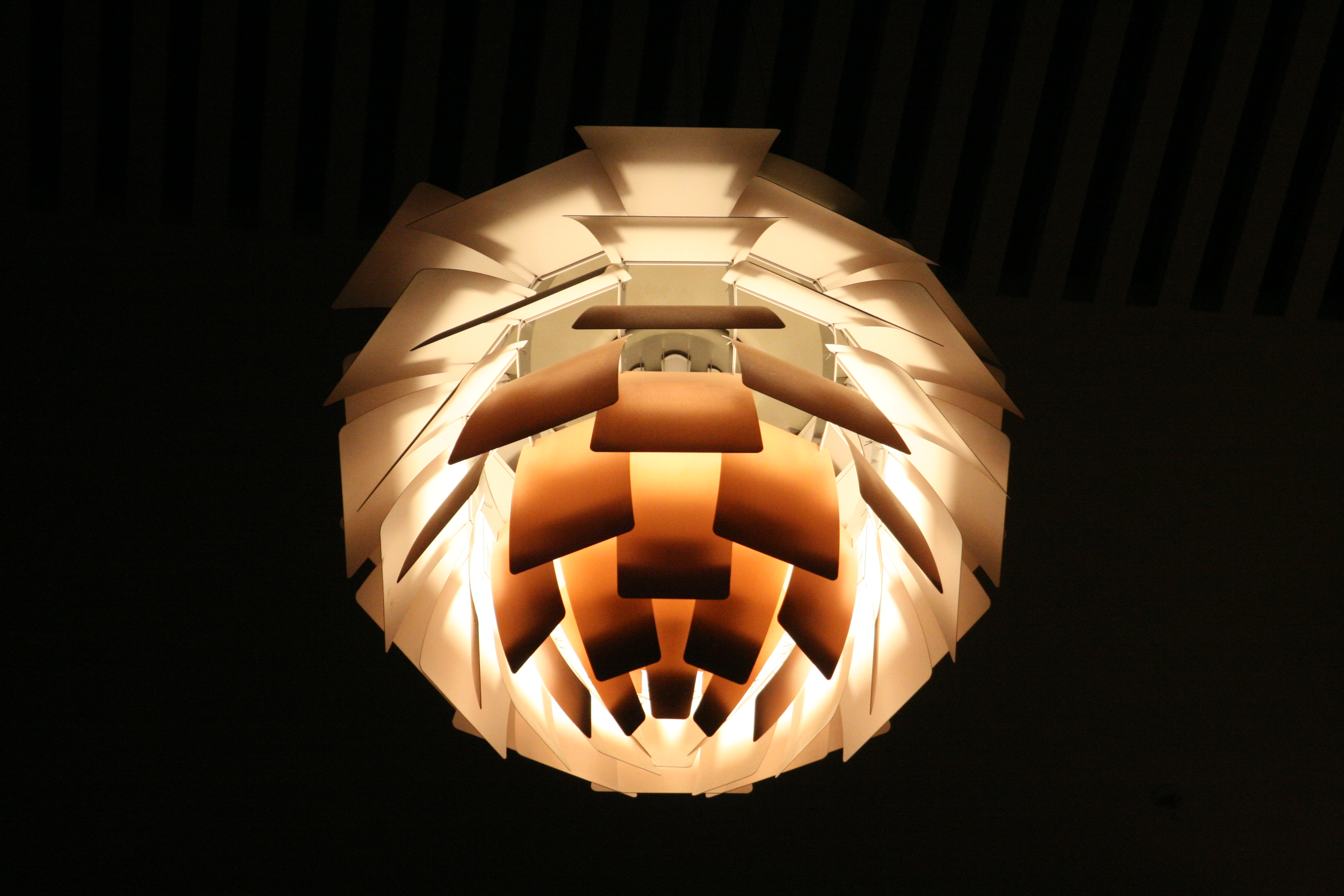 Poul Henningsen's Artichoke lamp seen from the side. Photographed in the lobby of Park Plaza Hotel in London